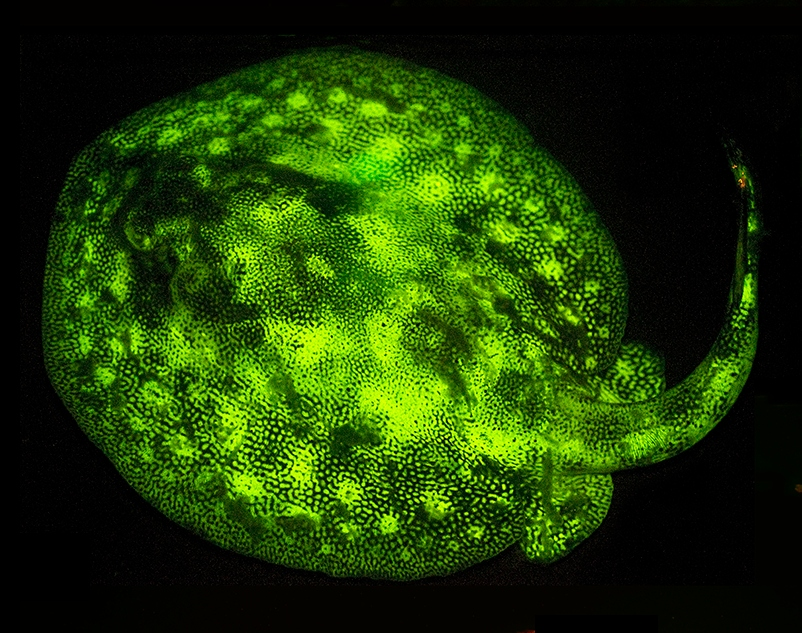 Biofluorescence of Urobatis jamaicensis